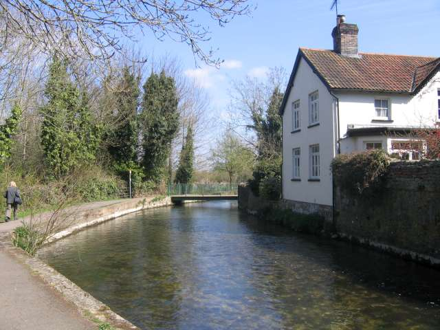 Riverside walk This is part of the 'Roman Town Walk' leading around Dorchester. Here it runs alongside the River Frome.